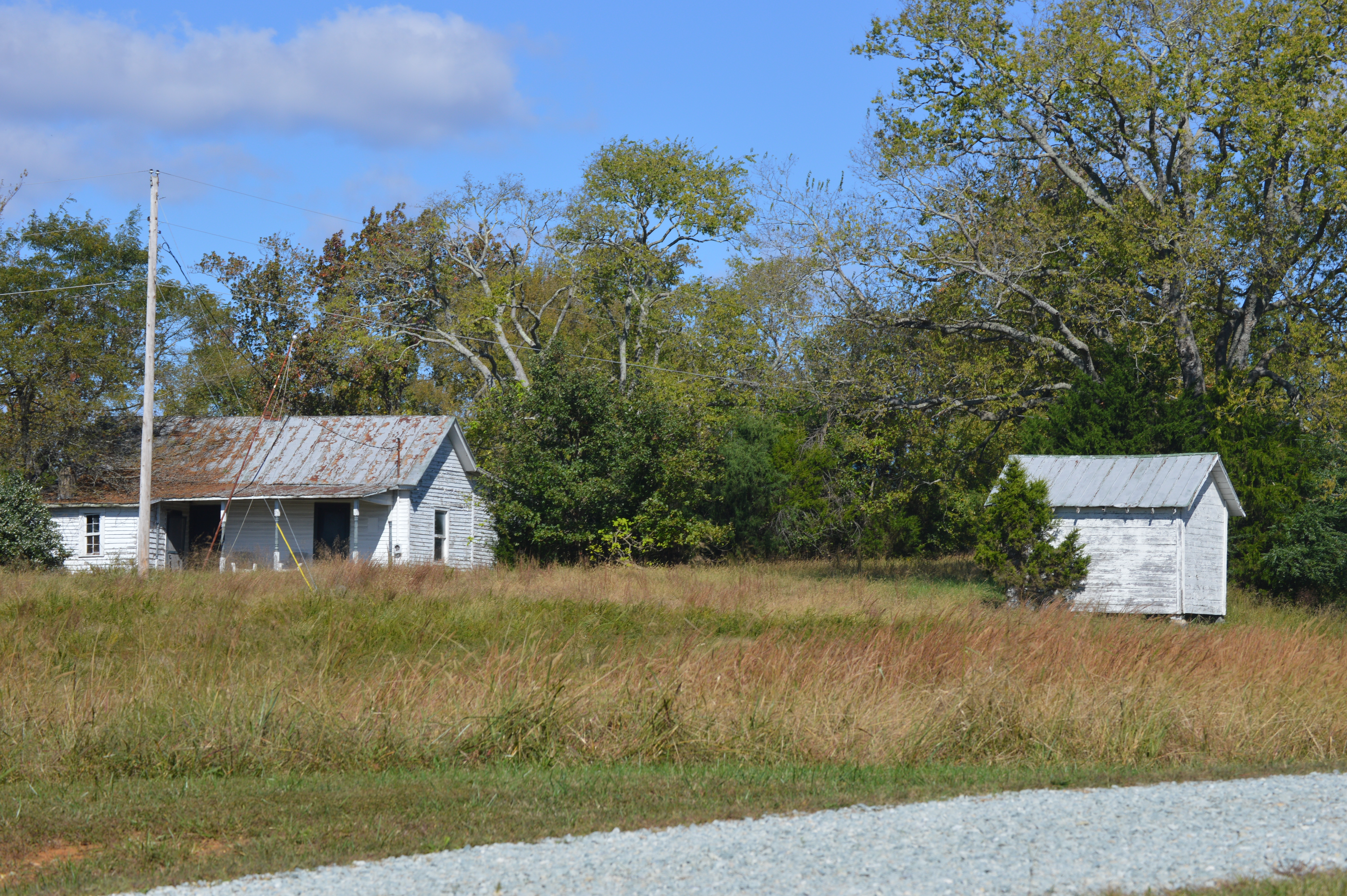 Outbuildings at the Burleigh complex, located north of North Carolina Highway 57 northwest of Concord in Person County, North Carolina, United States. The farmstead is listed on the National Register of Historic Places.